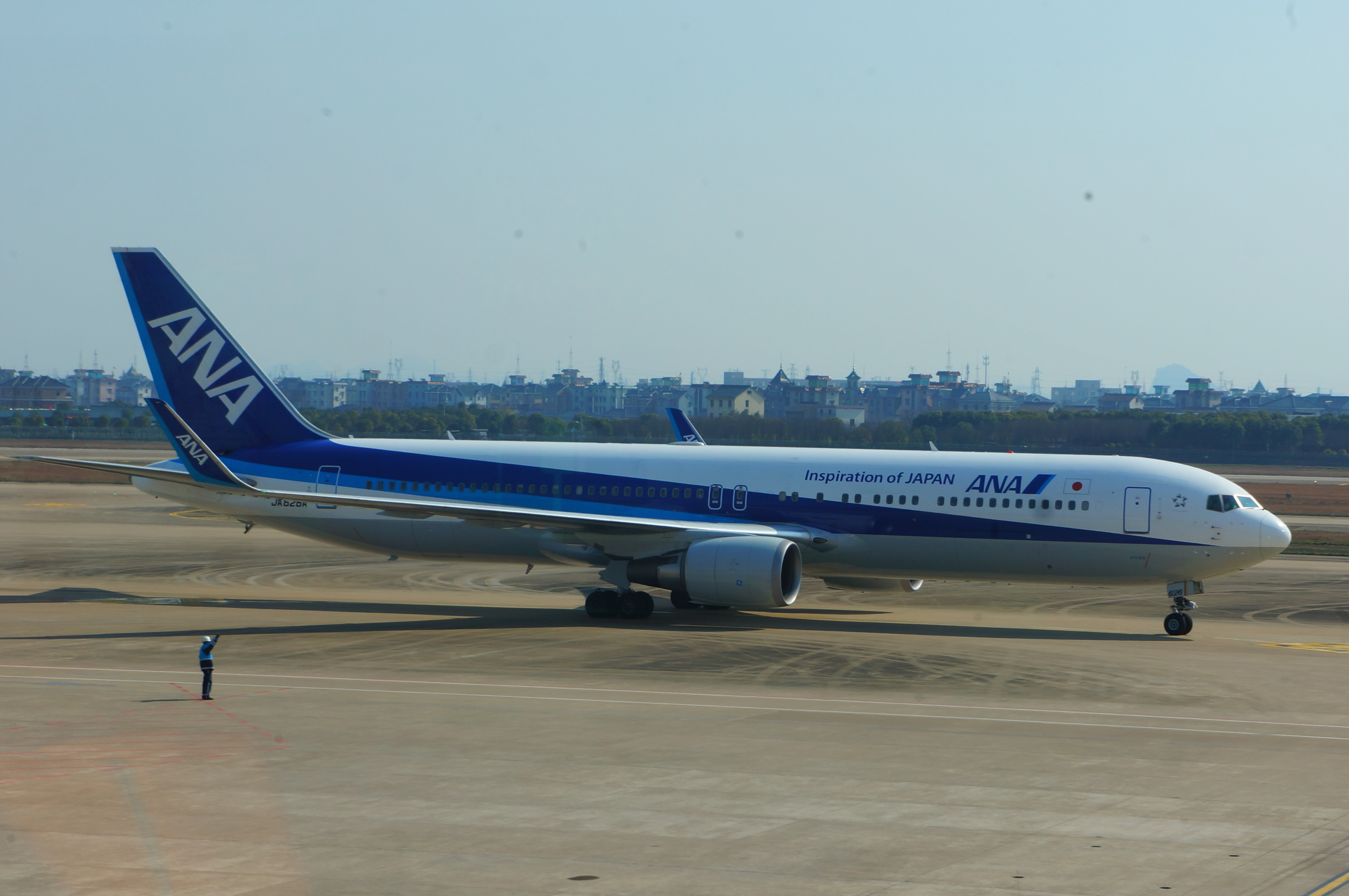 201701 JA626A taxis at HGH